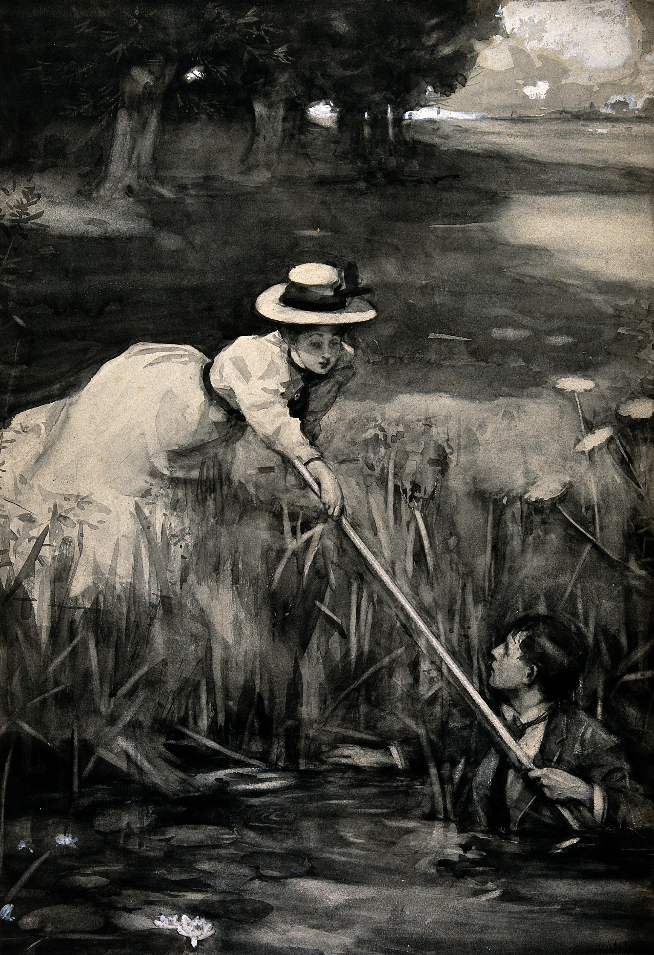 A young woman holds out a pole to the man standing in the river near the reeds. Gouache by John da Costa. Iconographic Collections Keywords: John da Costa; riverside romance; john da costa; brn 37700; ic; 19th century